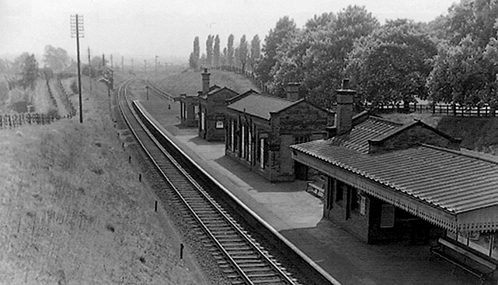 Belgrave & Birstall station View southward, towards Leicester, London etc.; ex-GC Sheffield - Nottingham Leicester - London Main line (closed mainly 5/9/66). Station closed 4/3/63, but reopened by Great Central Railway as 'Leicester North', being southern terminus of restored line from Loughborough (Central), which reached here on 3/7/91. The photograph shows the station in the original form typical of 'London Extension' stations - an island platform accessed from entrance buildings on a bridge.